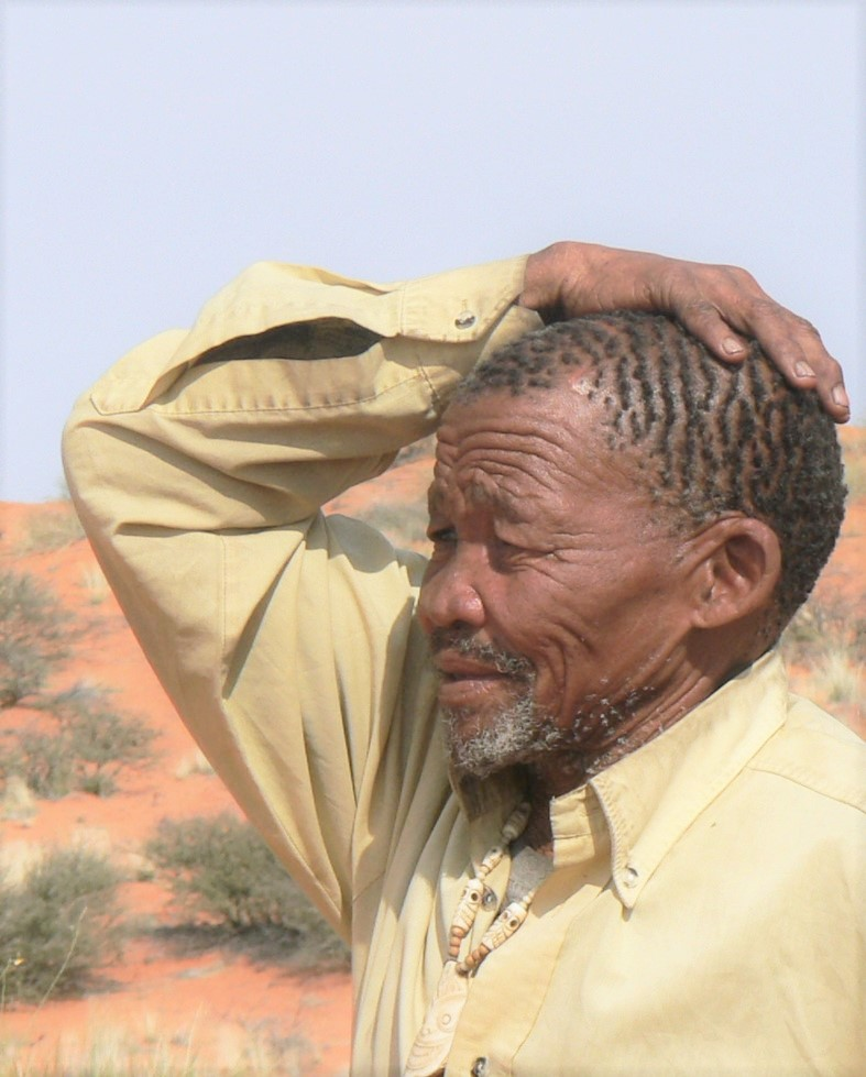 Photograph of the ǂKhomani San leader Dawid Kruiper taken in the Kgalagadi Transfrontier Park